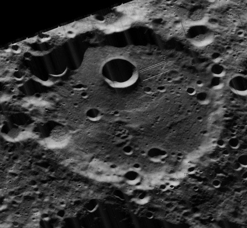 Oblique view of Mezentsev, on the far side of the moon, facing west. Edge of original photo in upper left.